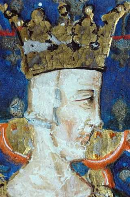 Robert of Naples